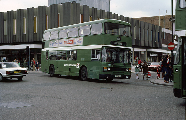 Midland Road United Counties 607 travelling along Midland Road, in the direction of the railway station, crosses River Street on route to Mowsbury. The pavements are full of Saturday shoppers. 607 is a Leyland Olympian.